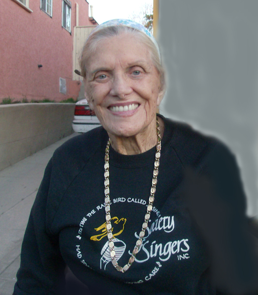 Singer Beryl Davis (b. 1924) in 2009